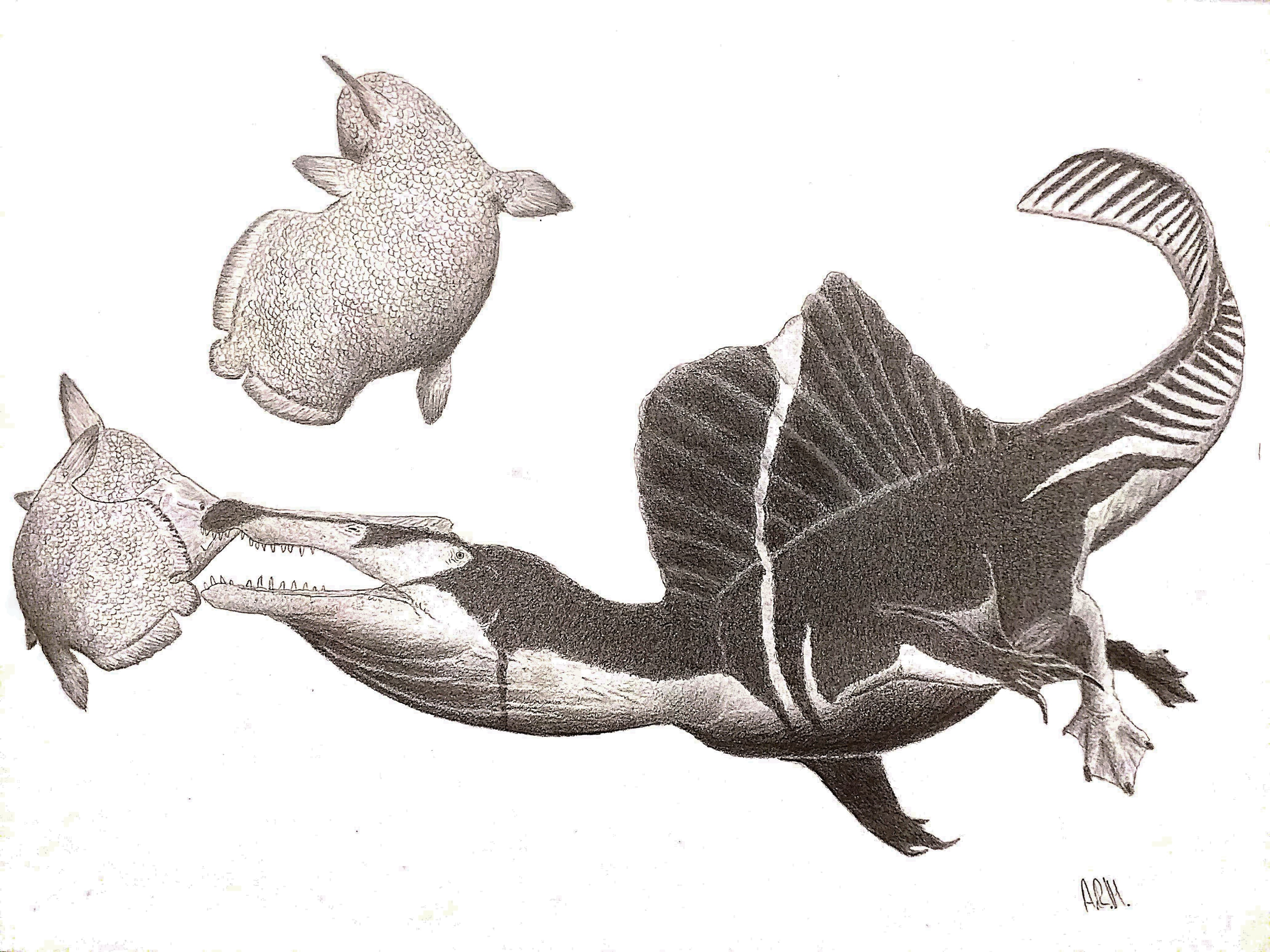 Recontruction of a swimming Spinosaurus aegyptiacus